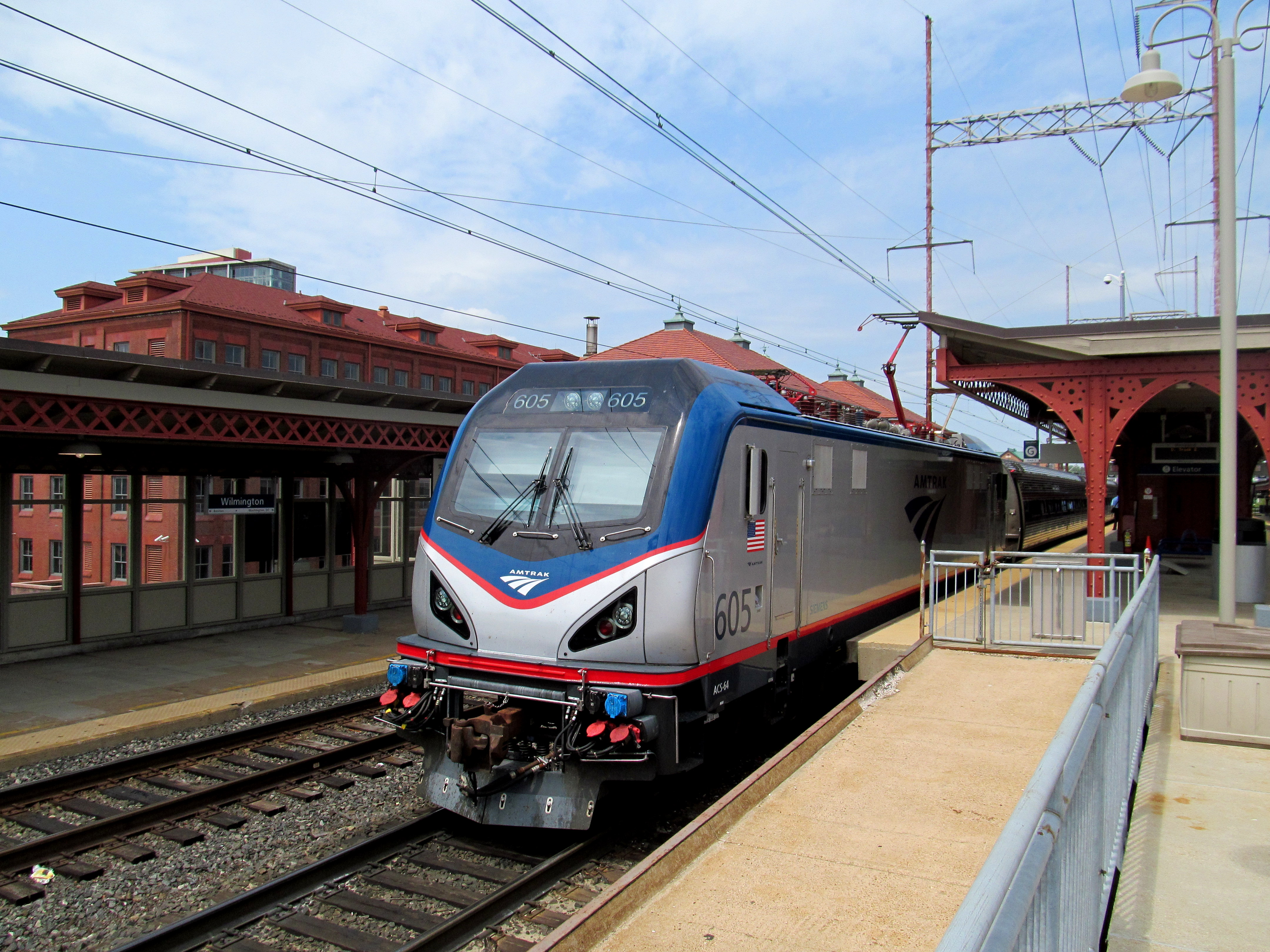 Brand-new ACS-64 #605 at Wilmington station on northbound Northeast Regional #82 in July 2014